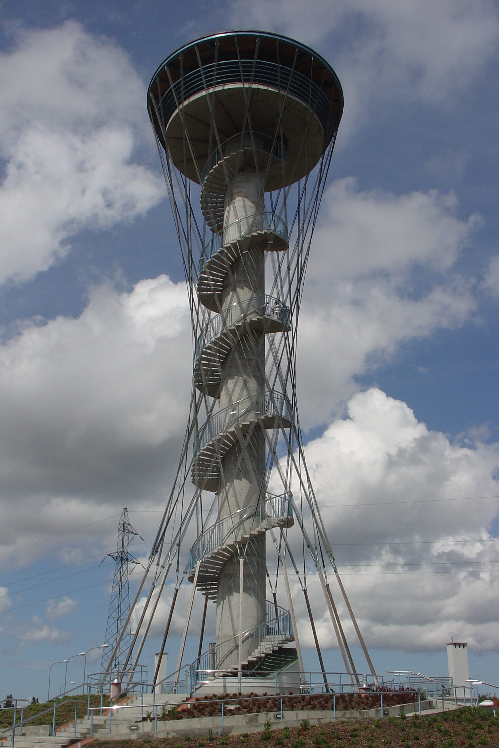 Observation tower Kuszubskie Oko (Kashubian Eye) in Gniewino.